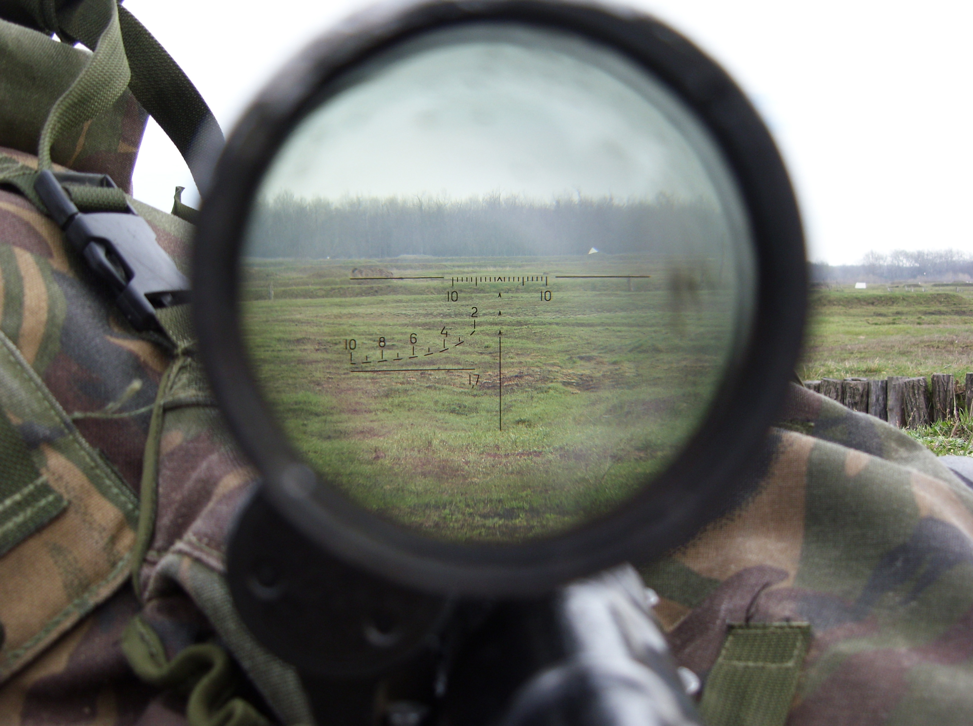 A PSO-1 telescopic sight mounted on a Dragunov SVD rifle. The top center "chevron" (^) is used as the main aiming mark. The horizontal hash marks are for windage and lead corrections and can be used for ranging purposes as well. In the bottom-left corner is a stadiametric rangefinder that can be used to determine the distance from a 1.7 meters (5 ft 6.9 in) tall object/person from 200 m (2) to 1000 m (10). For this the lowest part of the target is lined up on the bottom horizontal line. Where the top of the target touches the top curved line the distance can be determined. The three lower chevrons in the center are used as hold over points for engaging area targets beyond 1,000 meters (the maximum BDC range setting on the elevation drum). The user has to set the elevation turret to 1,000 meters and then apply the chevrons for 1,100, 1,200 or 1,300 meters respectively. The 10 reticle hashmarks in the horizontal plane can be used to compensate for wind or moving targets and can also be used for additional stadiametric rangefinding purposes, since they are spaced at 1 milliradian intervals, meaning if an object is 5 m wide it will appear 10 hashmarks wide at 500 m. This reticle lay out is also used in several other telescopic sights produced and used by other former Warsaw Pact member states. The PSO-1 reticule can be illuminated by a small battery-powered lamp.